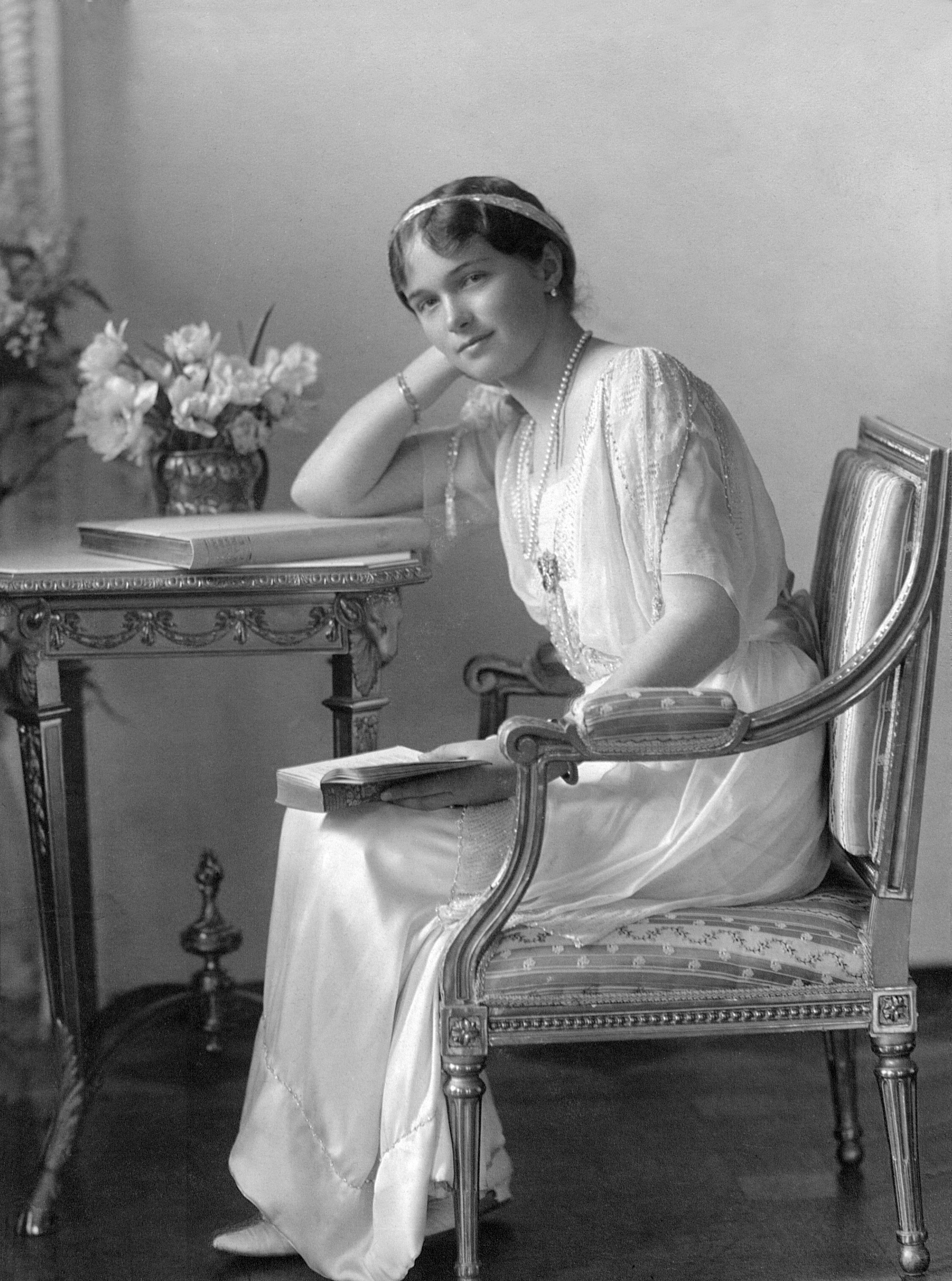 GD Olga Nikolaevna of Russia (1895–1918) Portrait from the 1913 Tercentary published on postcards in numerous countries prior to World War I.